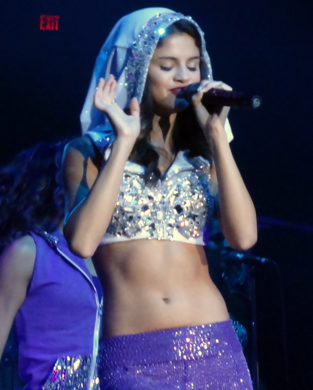 Selena Gomez at the We Own the Night Tour 2011.